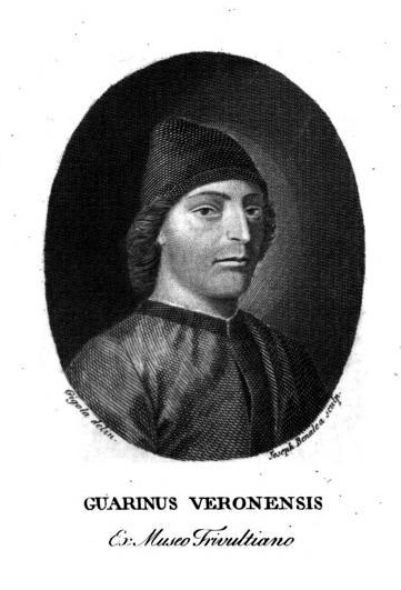 Portrait of Guarino Veronese